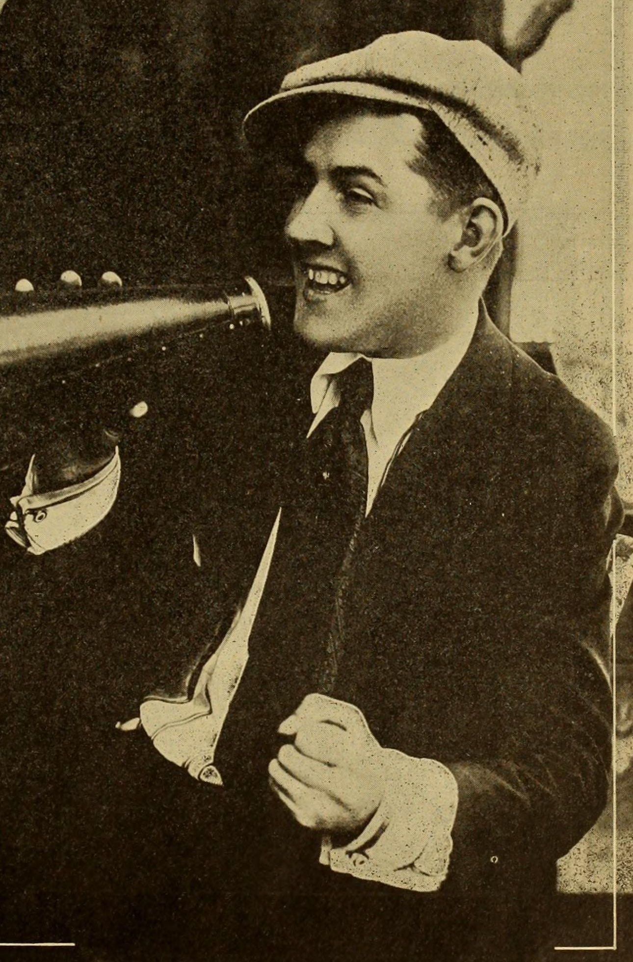 Motion Picture Studio Directory and Trade Annual, 1916